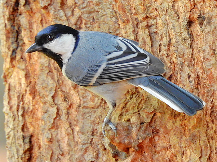 Cinereous tit (Parus cinereus) Photograph by Shantanu Kuveskar Location : Mangaon, Raigad, Maharashtra